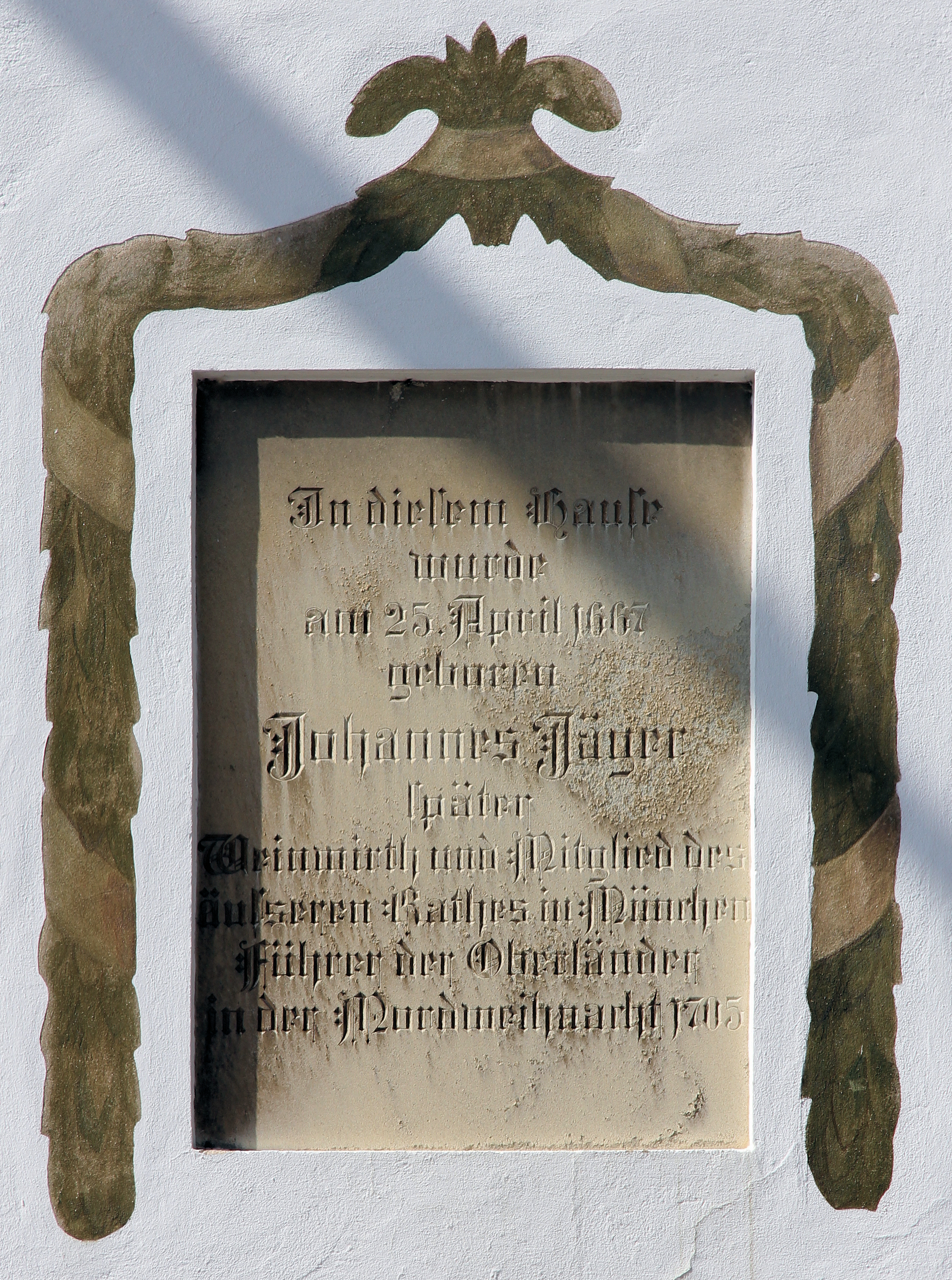 Memorial plaque, Johann Jäger, Marktstraße 41, Bad Tölz, Germany Koordinate:47°45′40″N 11°33′36″E / 47.76111°N 11.56°E